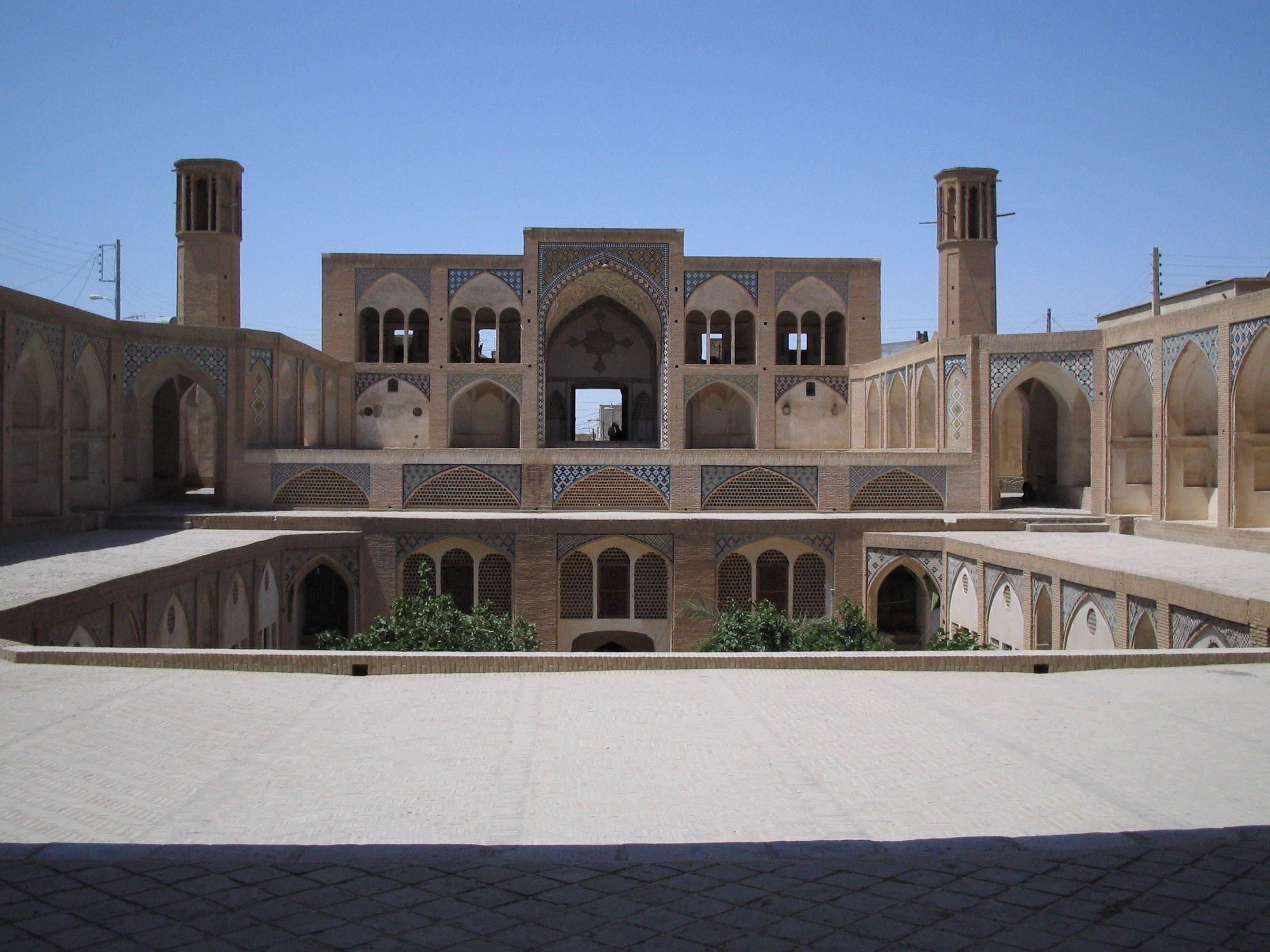 Madreseh Agha Bozorg with its badgirs (windtowers), Kashan, Iran.